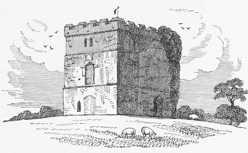 Paull Holme Tower p.493 in source